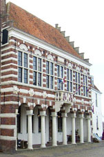 Old council house of Vollenhove.